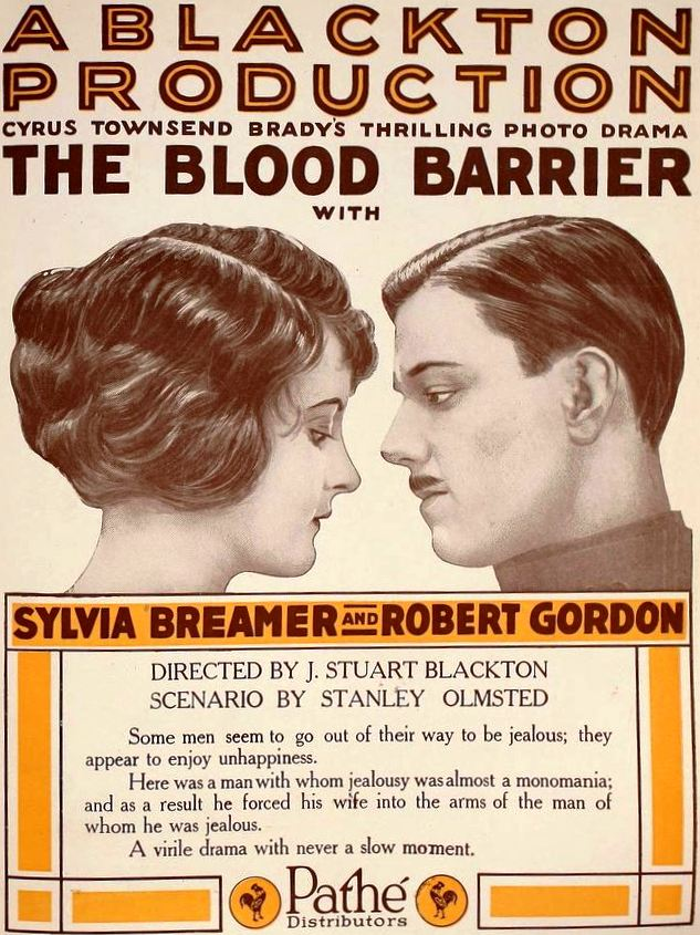 Ad for the American film The Blood Barrier (1920) with Sylvia Breamer and Robert Gordon, page 3237 of the April 10, 1920 Motion Picture News.